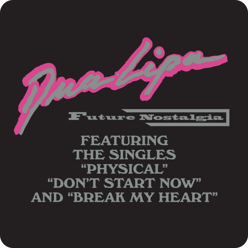 Sticker of “Future Nostalgia” by Dua Lipa